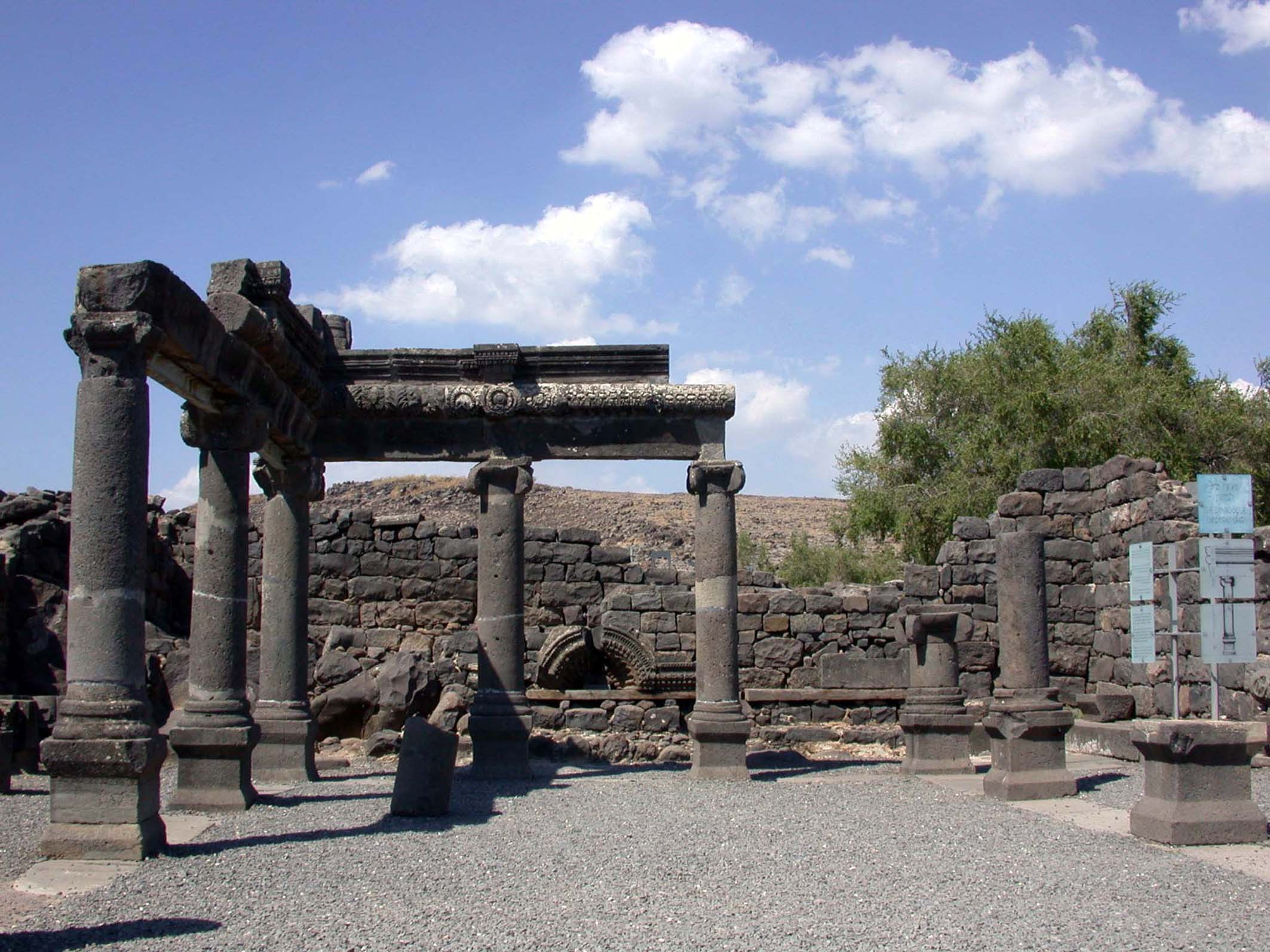 Picture of an Archaeological site כורזים